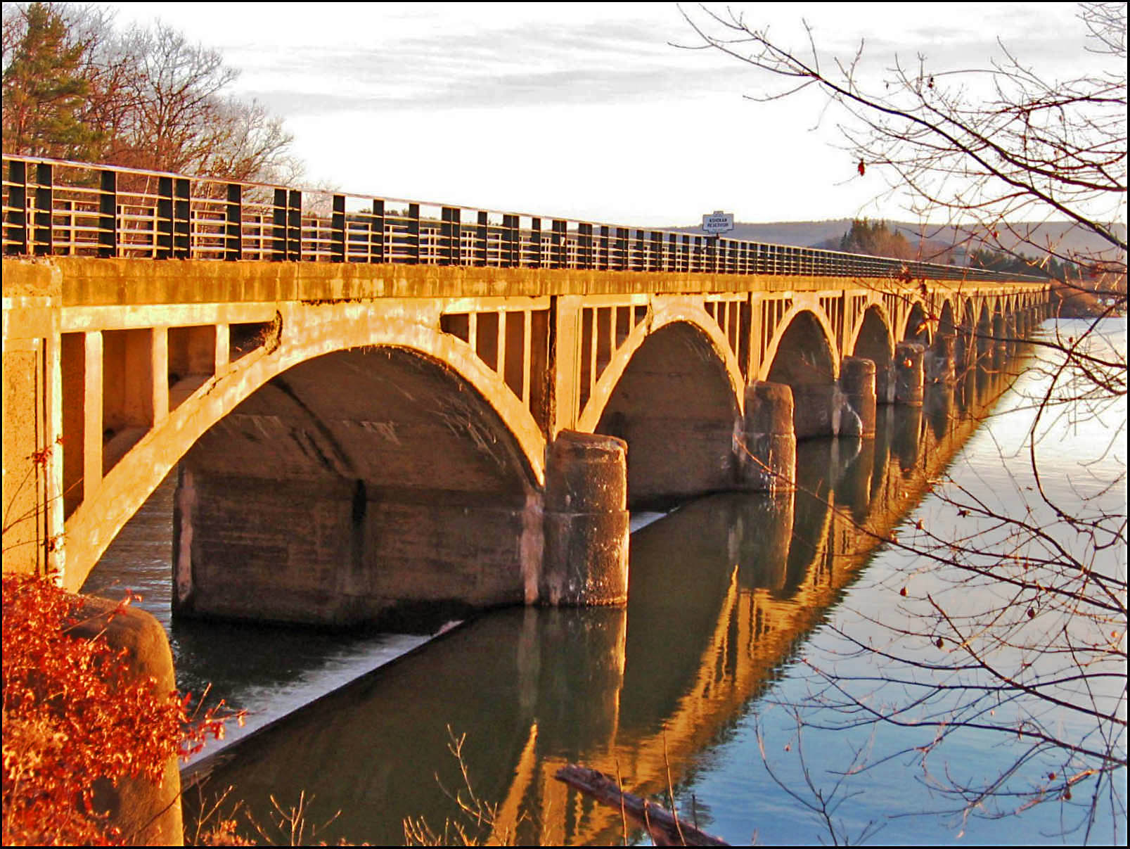 Bridge over Ashokan Reservoir in Catskill Mountains, NY, USA